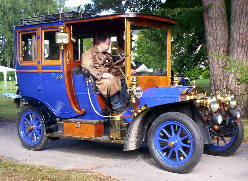 Vabis 2S AP/G Limousine 1909